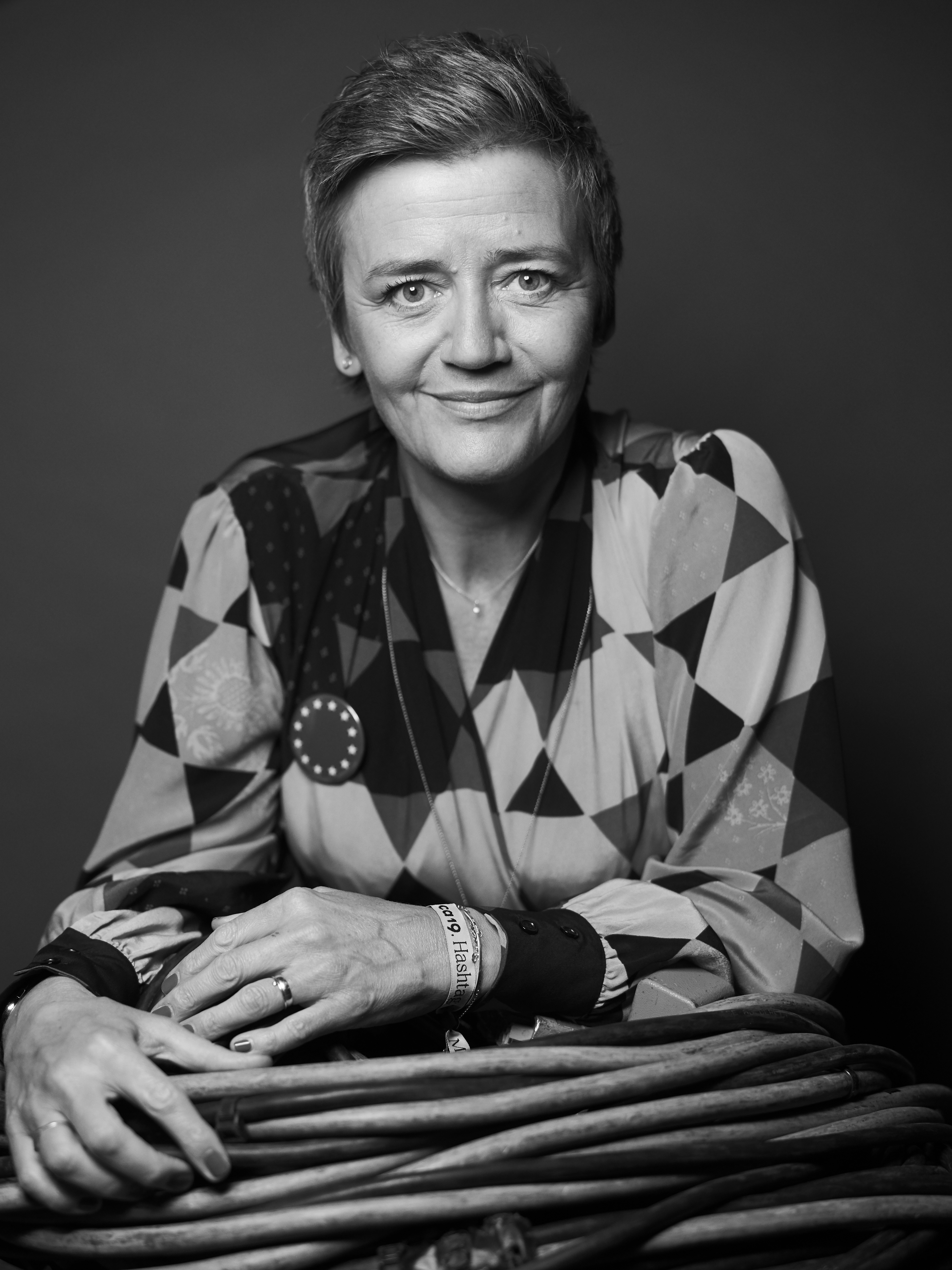 Speakerin Margrethe Vestager